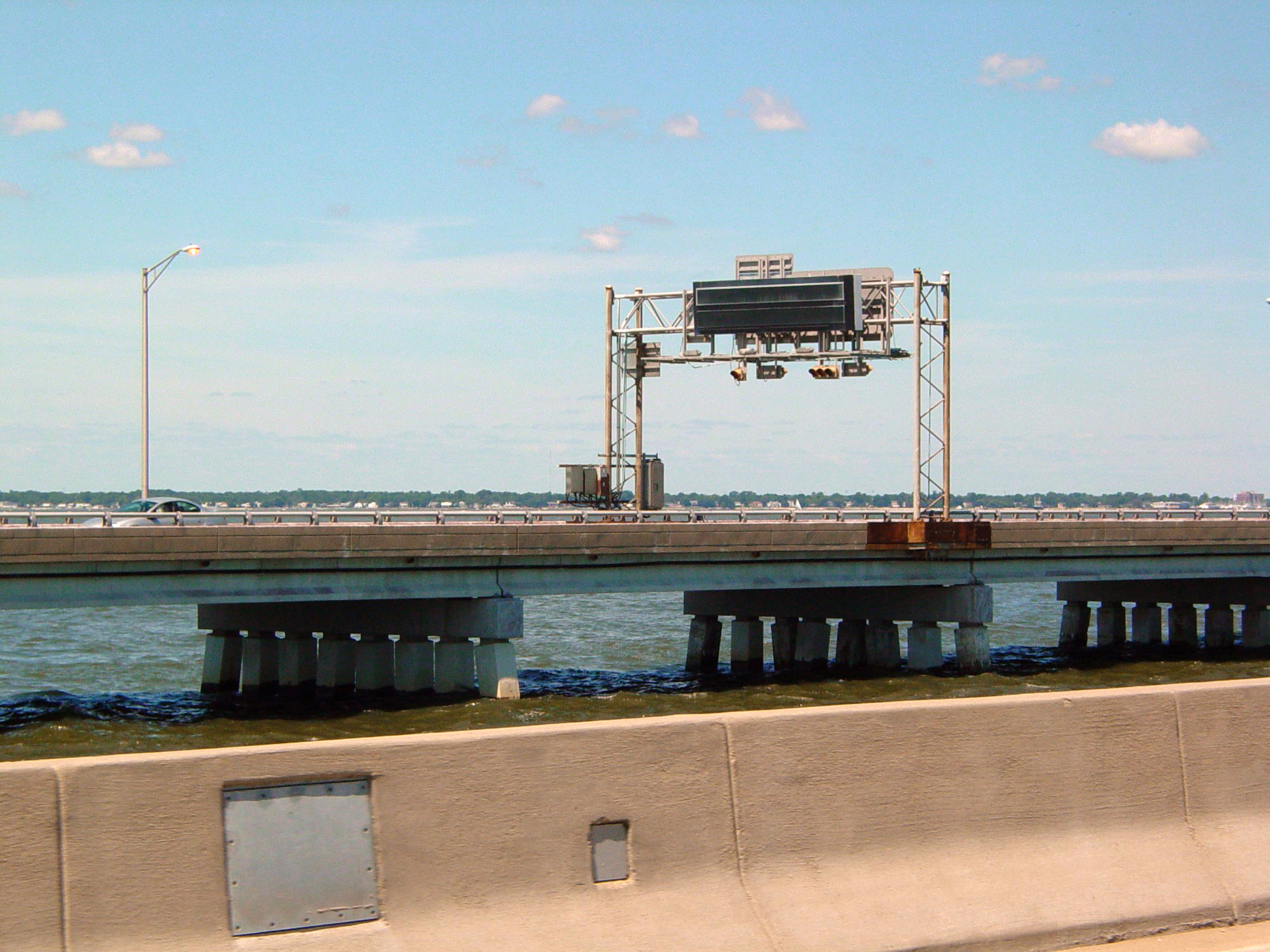 Eastbound span of Hampton Roads Bridge-Tunnel as seen from the westbound span.